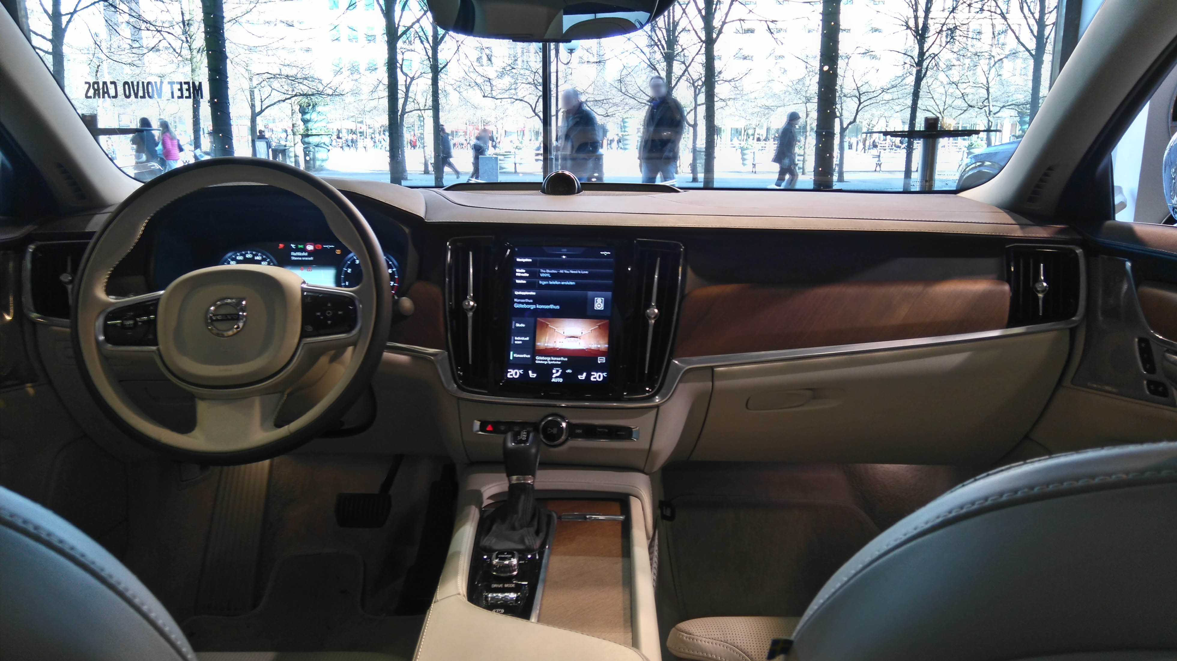 2016 Volvo S90 T6 Inscription